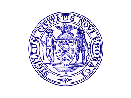 This is a rendering of the unofficial flag of New York City, circa 1914. It was recreated using a description from "Seal and Flag of the City of New York", edited by John B. Pine and published in 1915. The seal in the center was cancelled by ordinance on June 24, 1915 and replaced with a version of the current city seal. The flag itself was replaced by the blue, white and orange tricolor on April 6, 1915.